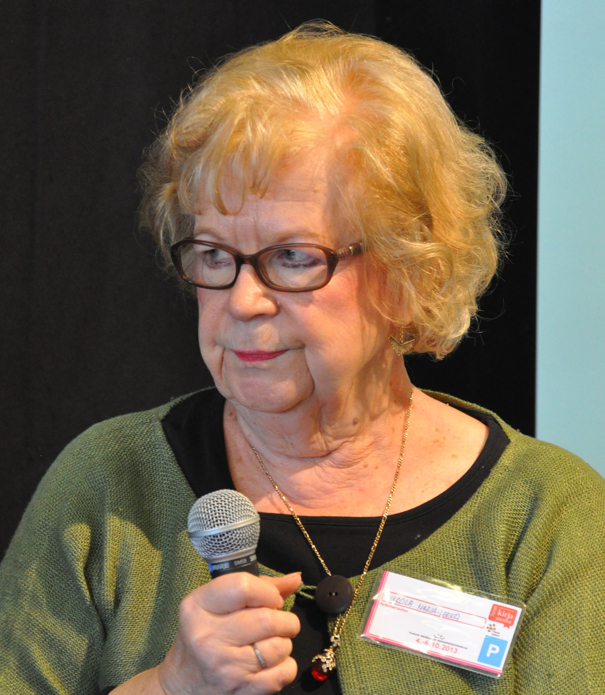 Finnish writer Marja-Leena Mikkola at Turku Book Fair, 2013.